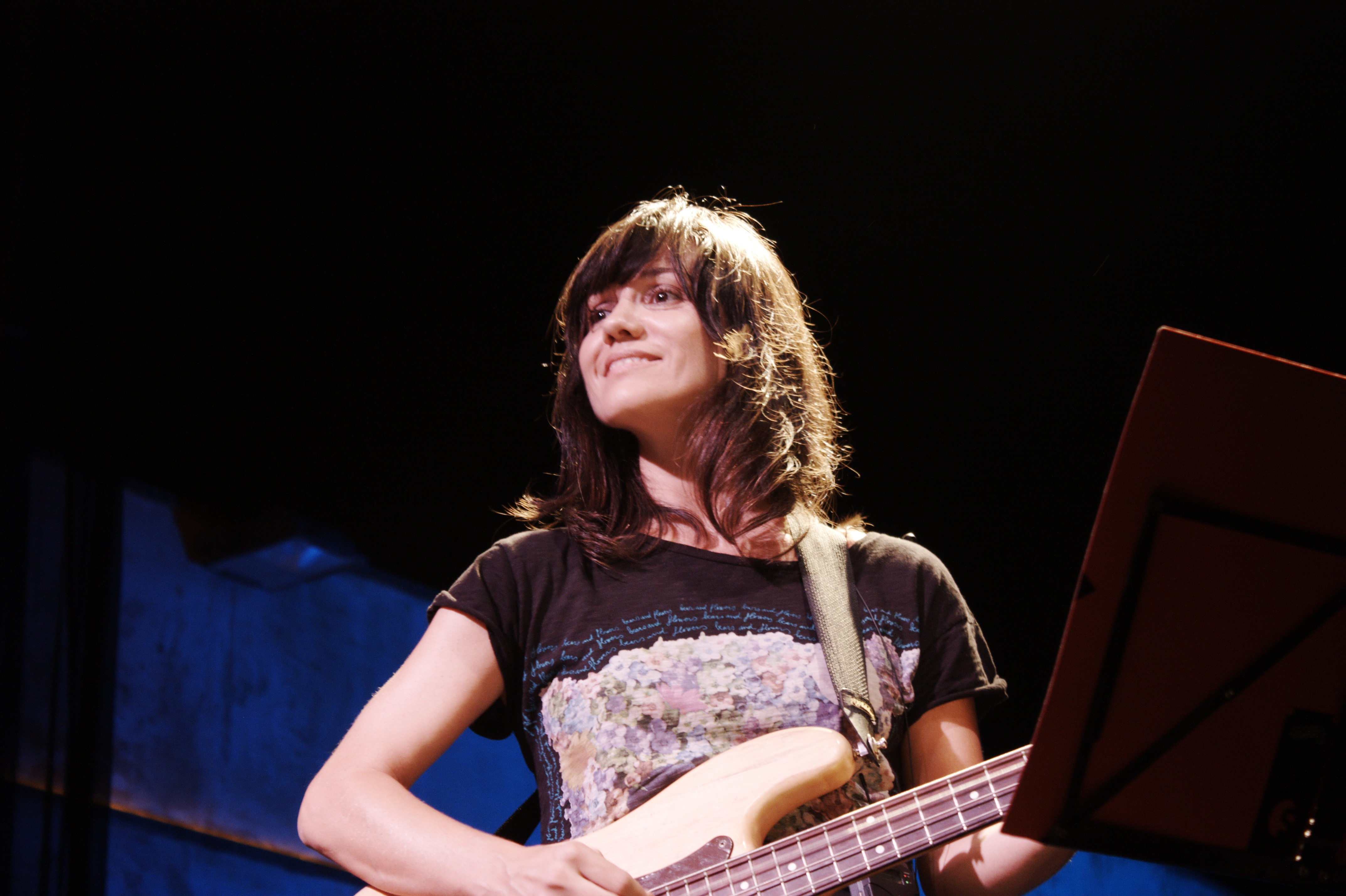 Ana Fernández-Villaverde, Leader of the Spanish indie pop group "La Bien Querida" playing the electric bass at a live concert.